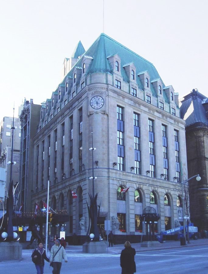 The Central Post Office, taken by SimonP